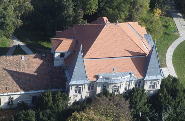 Pécel, Hungary, Aerial photography